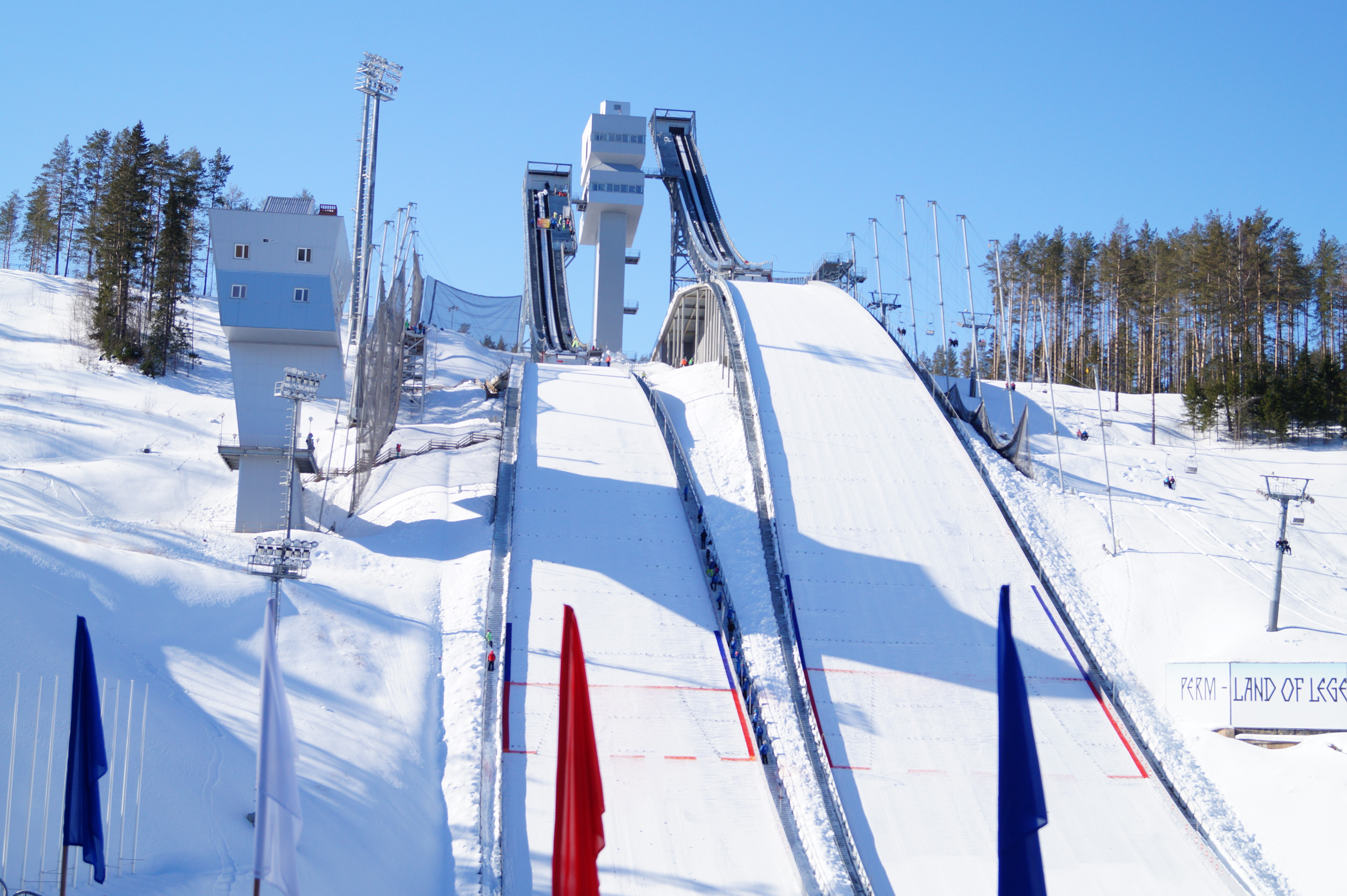 Snezhinka Ski Center 125K and 95K hills